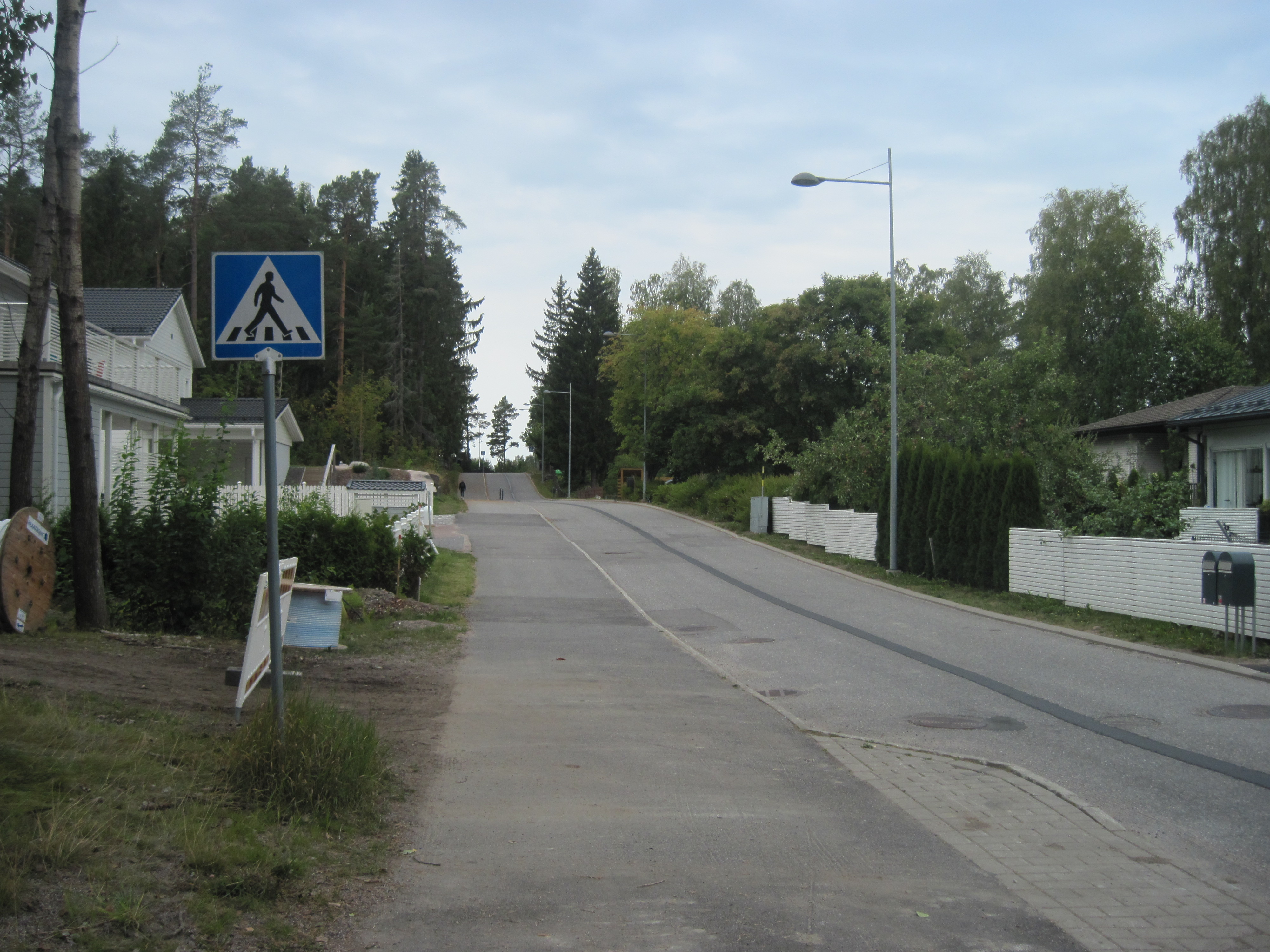 Friisinniityntie at Friisilä, Espoo, Finland